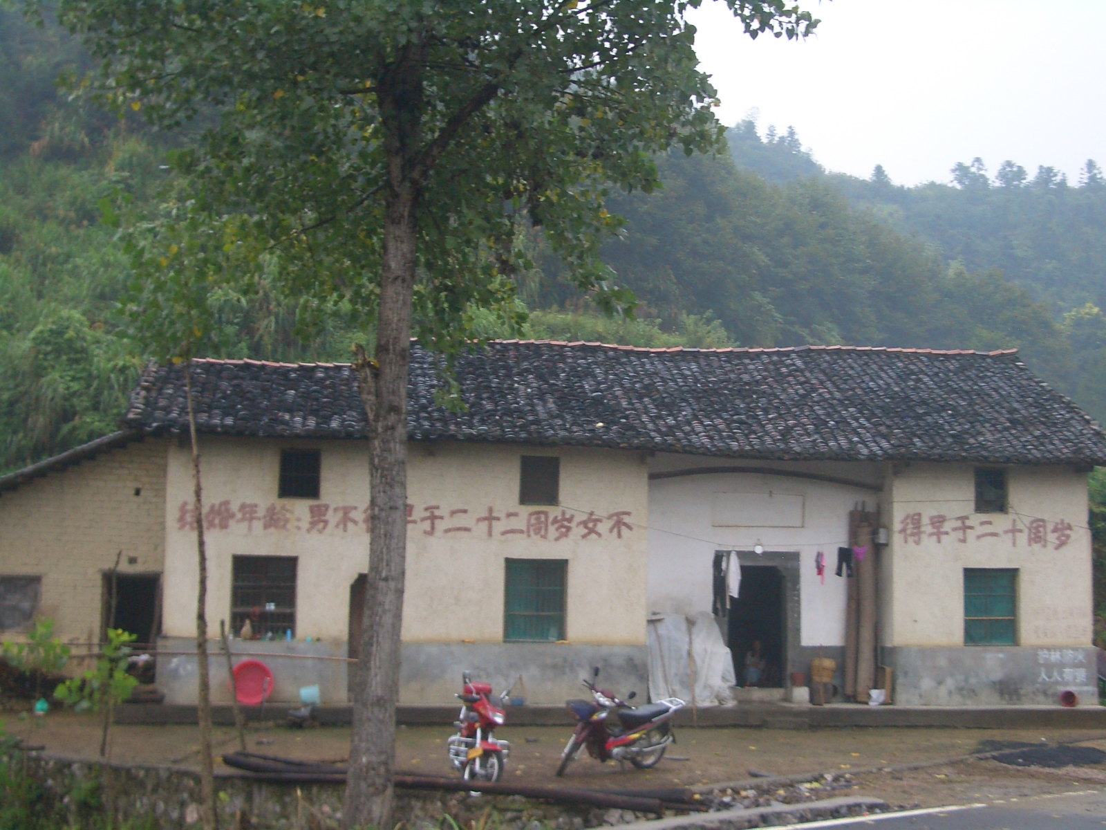 A village house in Tongshan County, Hubei. Picture taken from Hwy G106 east of Tongshan; based on the signage seen nearby and Google Maps, the village is probably called Pailou (排楼 / 牌楼), under jurisdiction of Jiugong Town. The text painted on the house informs about the minimum age of marriage in the country (22 years old for men, 20 for women).